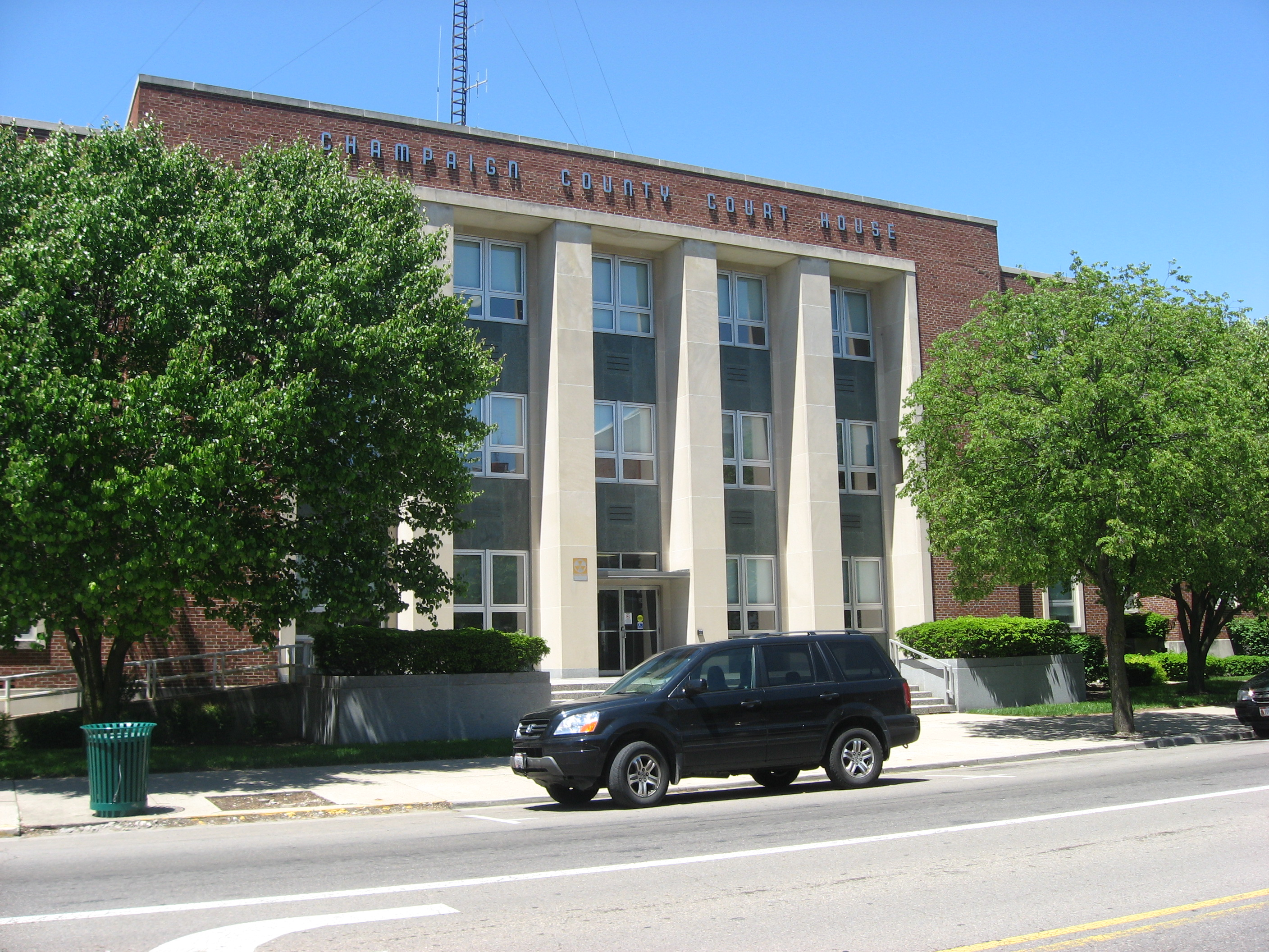 Frontal view of the Champaign County Courthouse, located along Main Street at its intersection with Court Avenue in downtown Urbana, Ohio, United States. Although the courthouse is located within the bounds of the Urbana Monument Square Historic District, it is a non-contributing property.